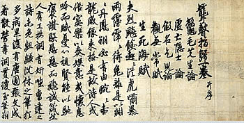 Rōkoshiiki, opening page